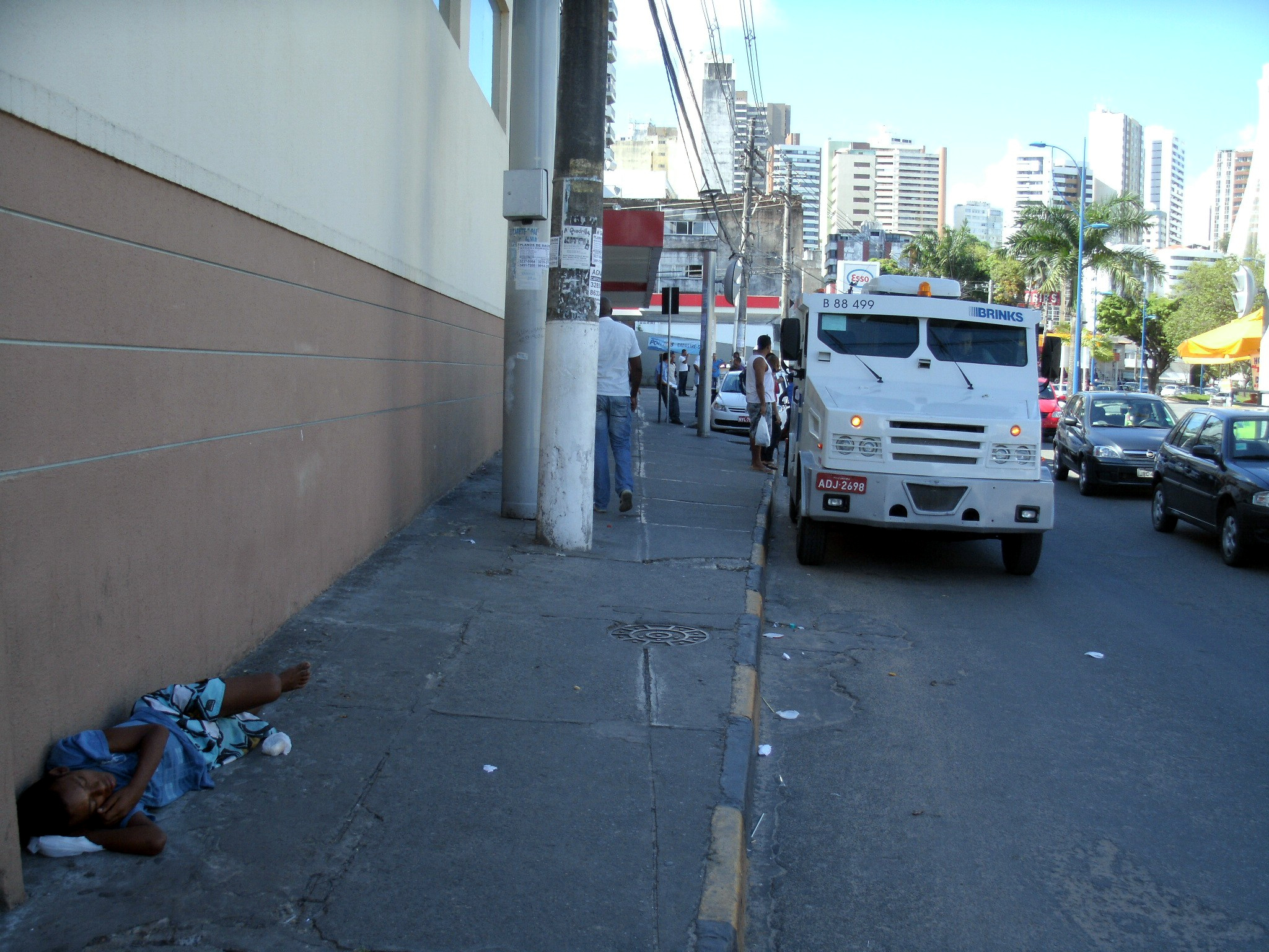 Homeless children in the streets of Salvador de Bahia